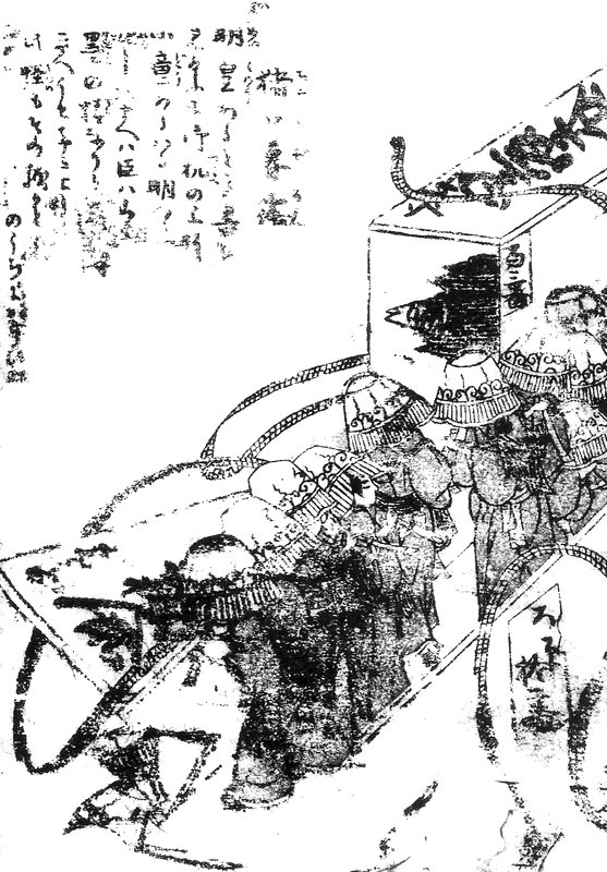 Chokuboron (猪口暮露) from the Gazu Hyakki Tsurezure Bukuro (百器徒然袋)